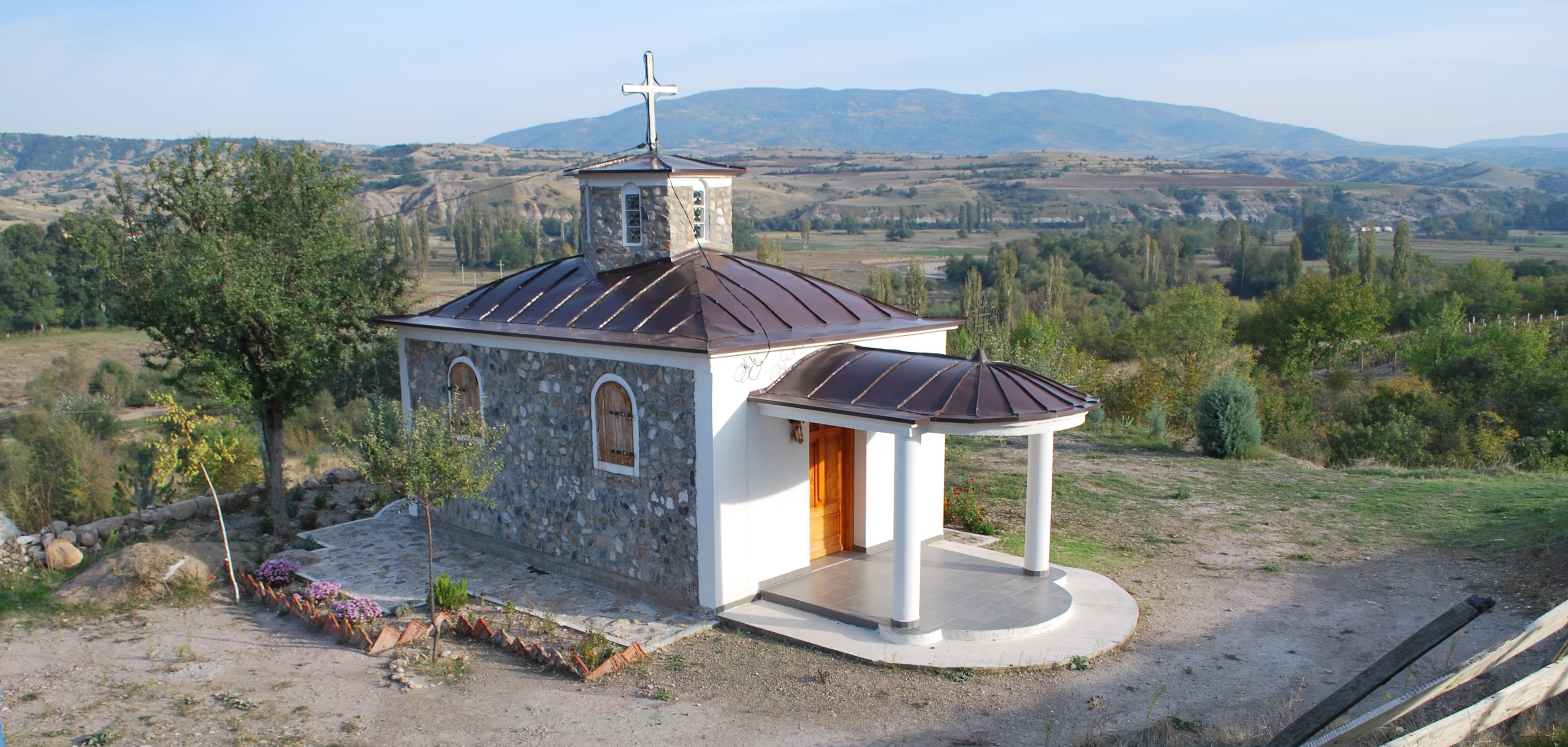 St. Elijah Church in Gorno Konjari, Macedonia